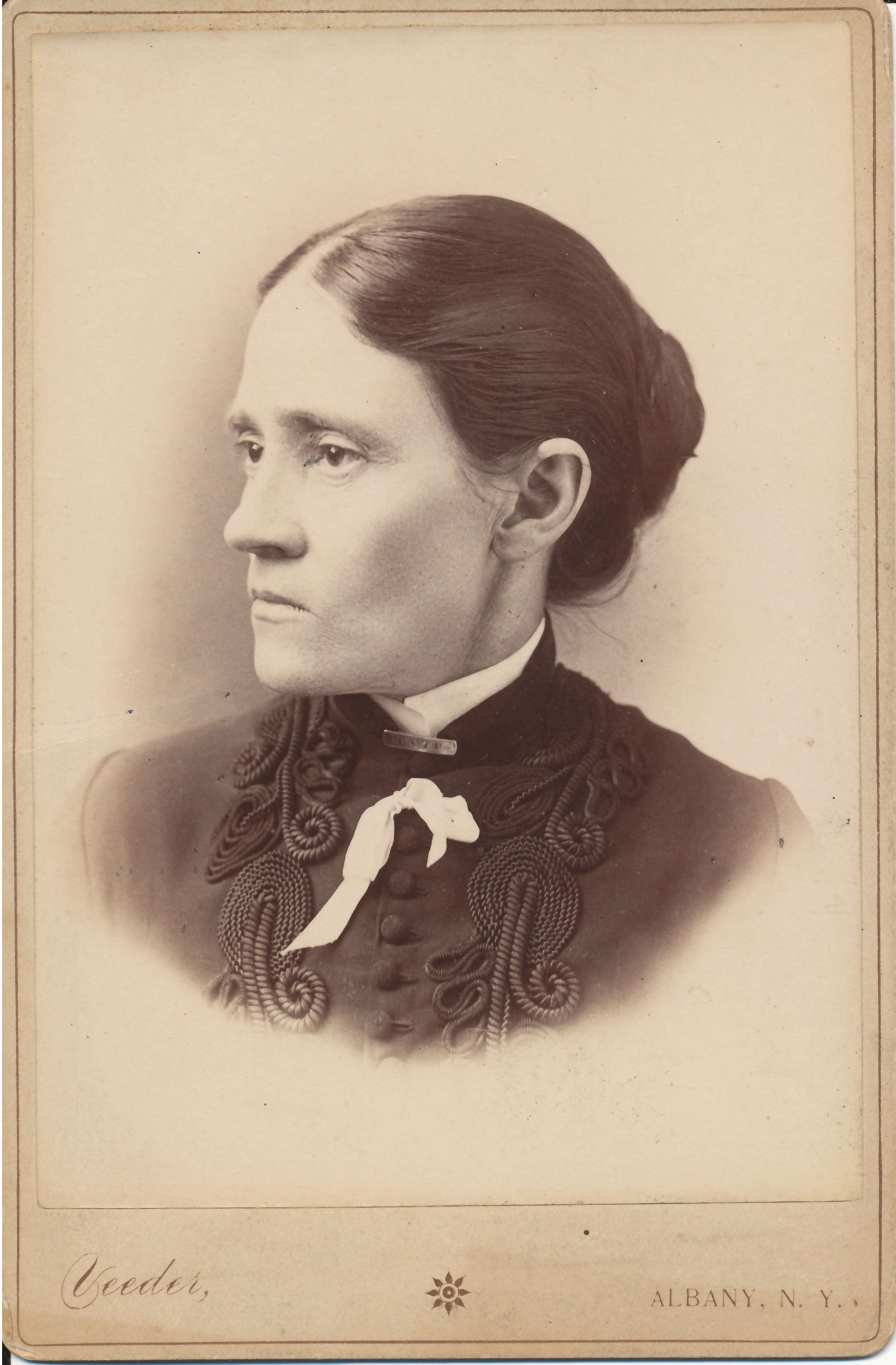 Lillian M. N. Stevens, president of Women's Christian Temperance Union